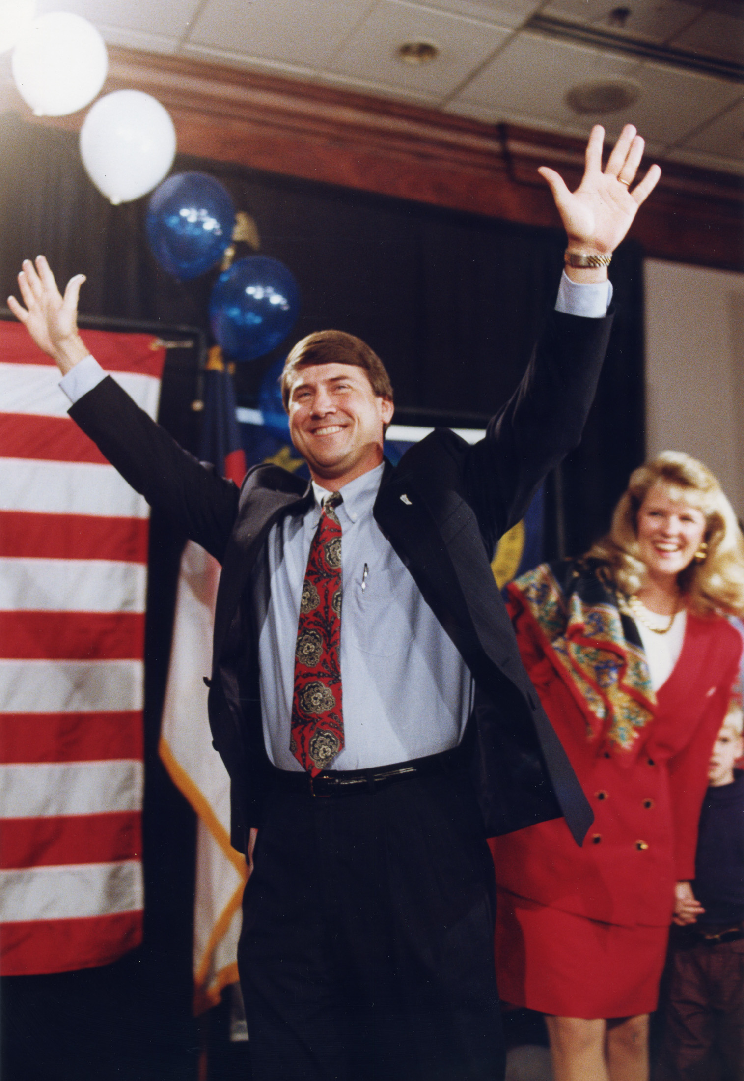 Dennis A. Wicker celebrates his win as North Carolina Lieutenant Governor, as his wife looks on. November 3, 1992.